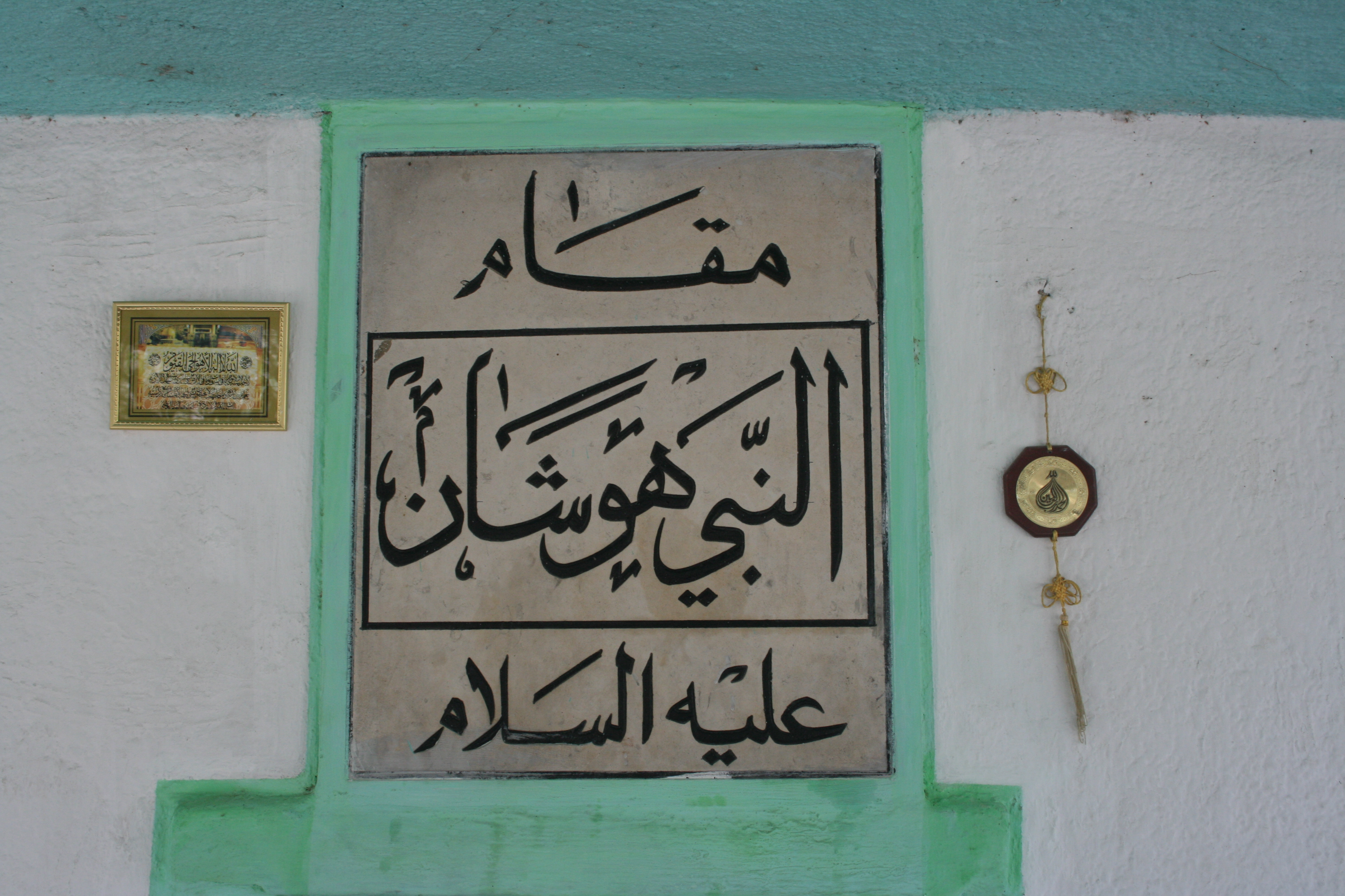 Plaque over the door of the entrance to the Nabi Hushan Maqam ("shrine"). It reads: "Shrine of the Prophet Hushan, peace be upon him." The shrine is located in the cemetery for the destroyed Palestinian village of Hawsha.